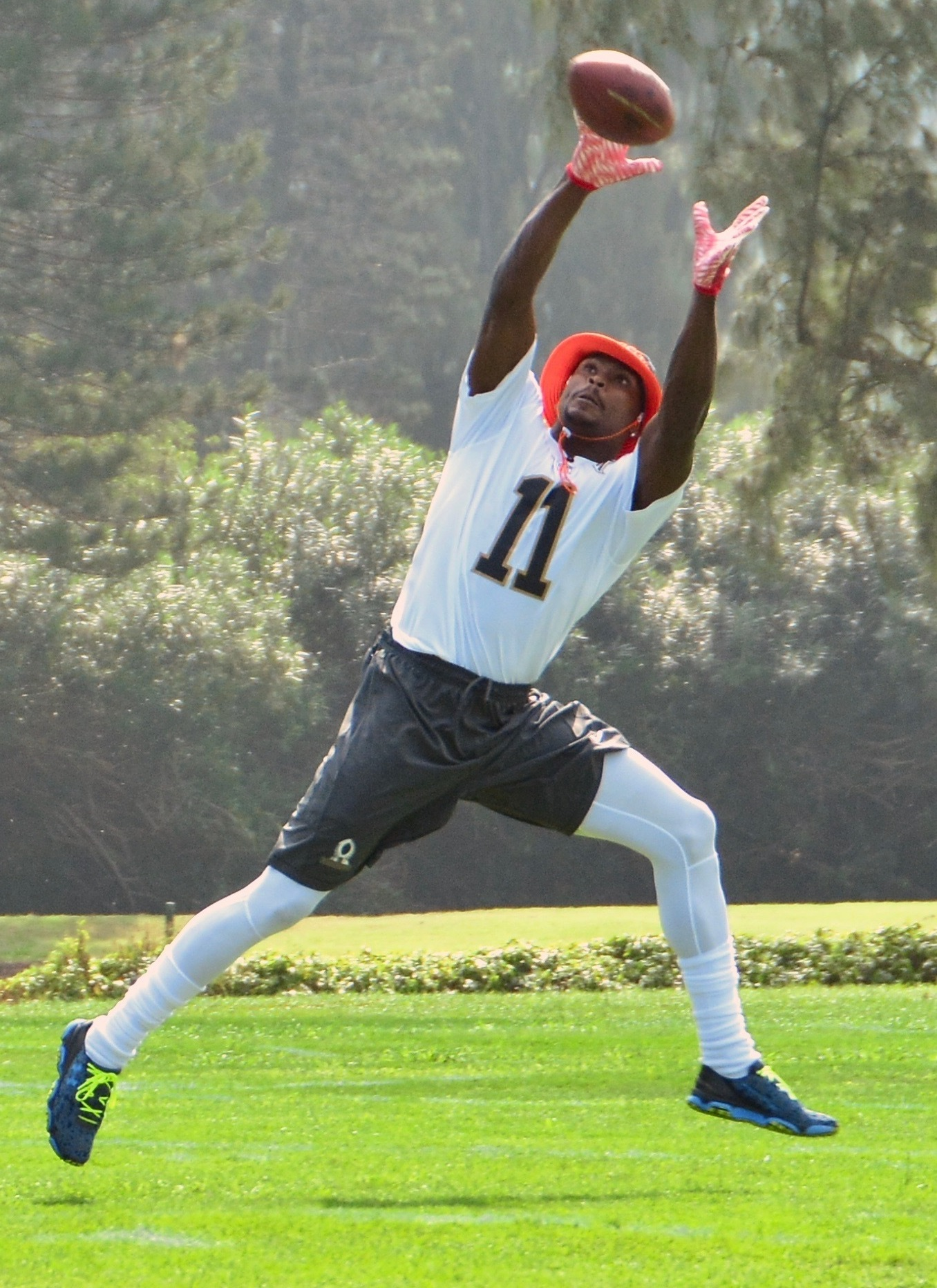 Atlanta Falcons wide receiver Julio Jones catches a deep pass Miami Dolphis safety Reshad Jones during the first day of practice for Pro Bowl 2016 at the Turtle Bay Resort in Kahuku, Hawaii, Jan. 28.